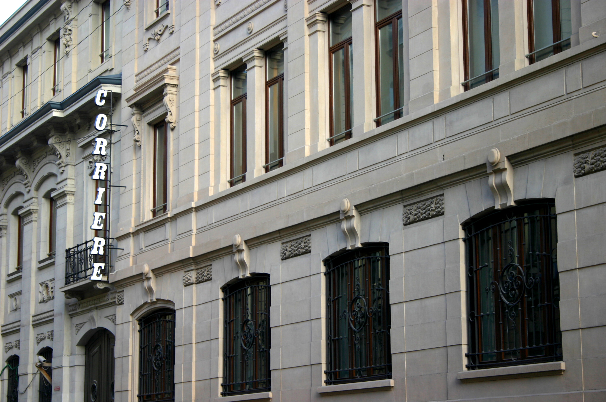 The building housing the most important Italian newspaper, "Corriere della sera" in via Solferino in Milan (Italy). It was projected by Luca Beltrami in 1904. Picture by Giovanni Dall'Orto, January 20 2007.